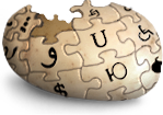 Logo of en, de, fa, and some other Uncyclopedias